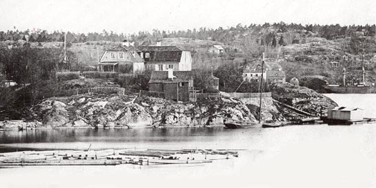 Waldemarsudde before 1900